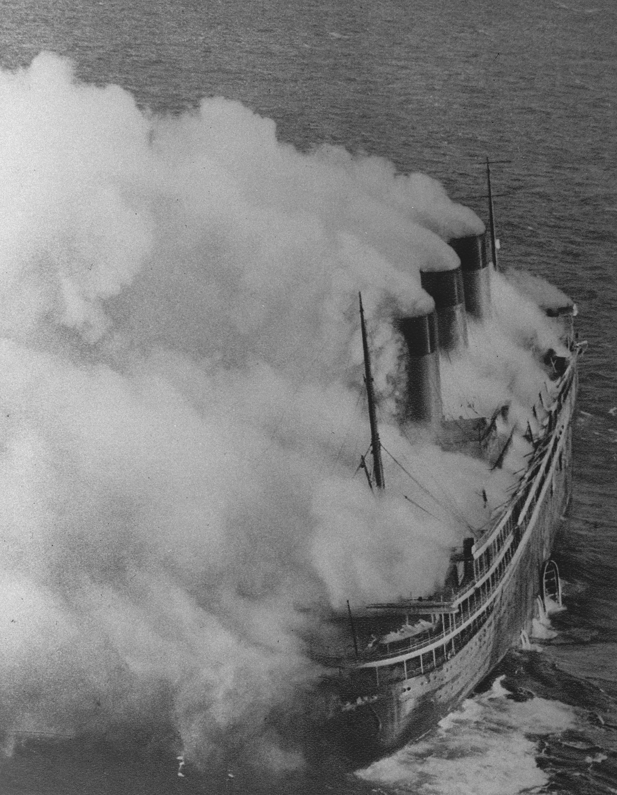 The passenger liner SS L'Atlantique on fire in January, 1933